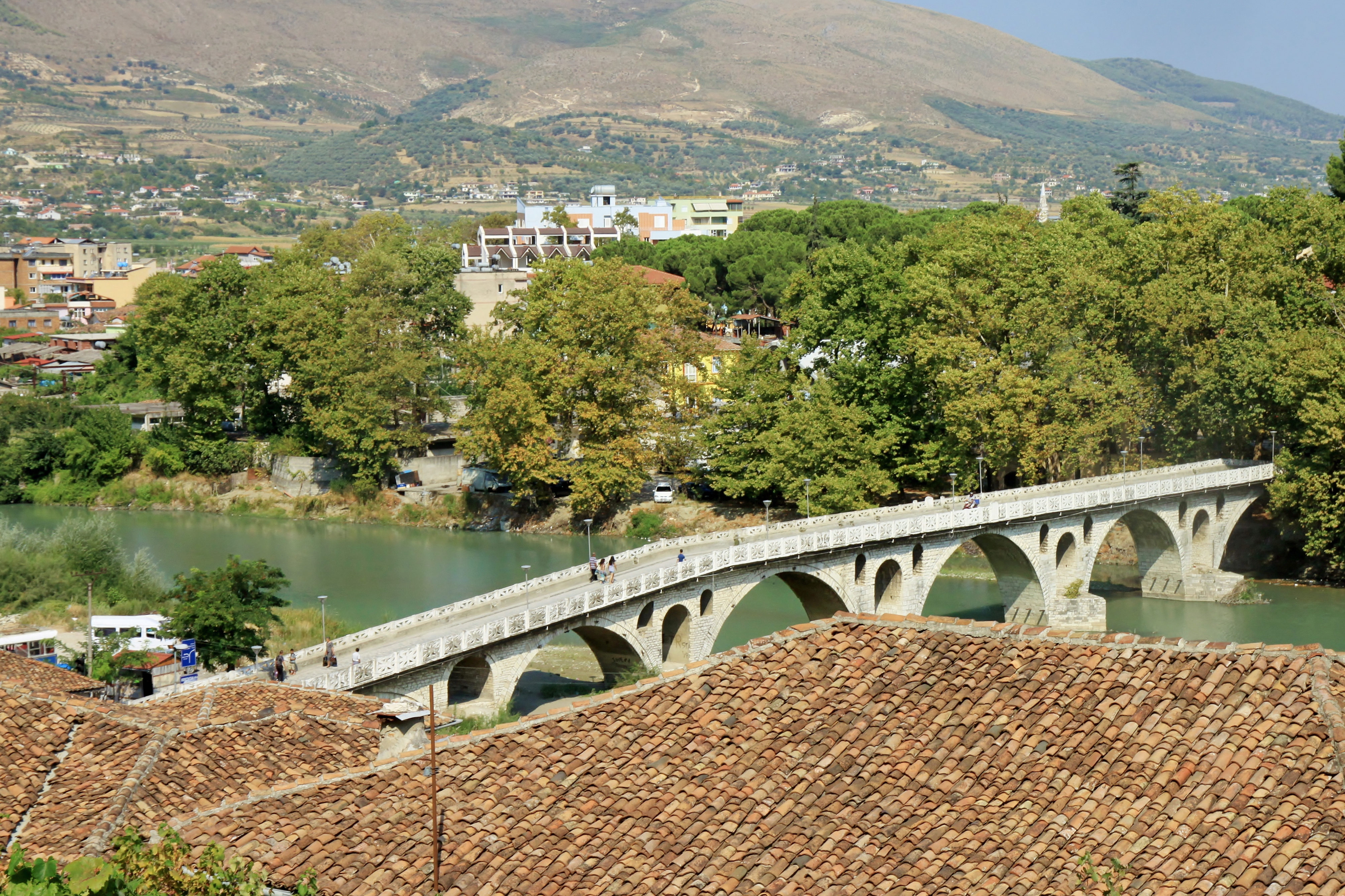 Turkish Bridge (Gorica Bridge), Berat, Berat County, Albania.